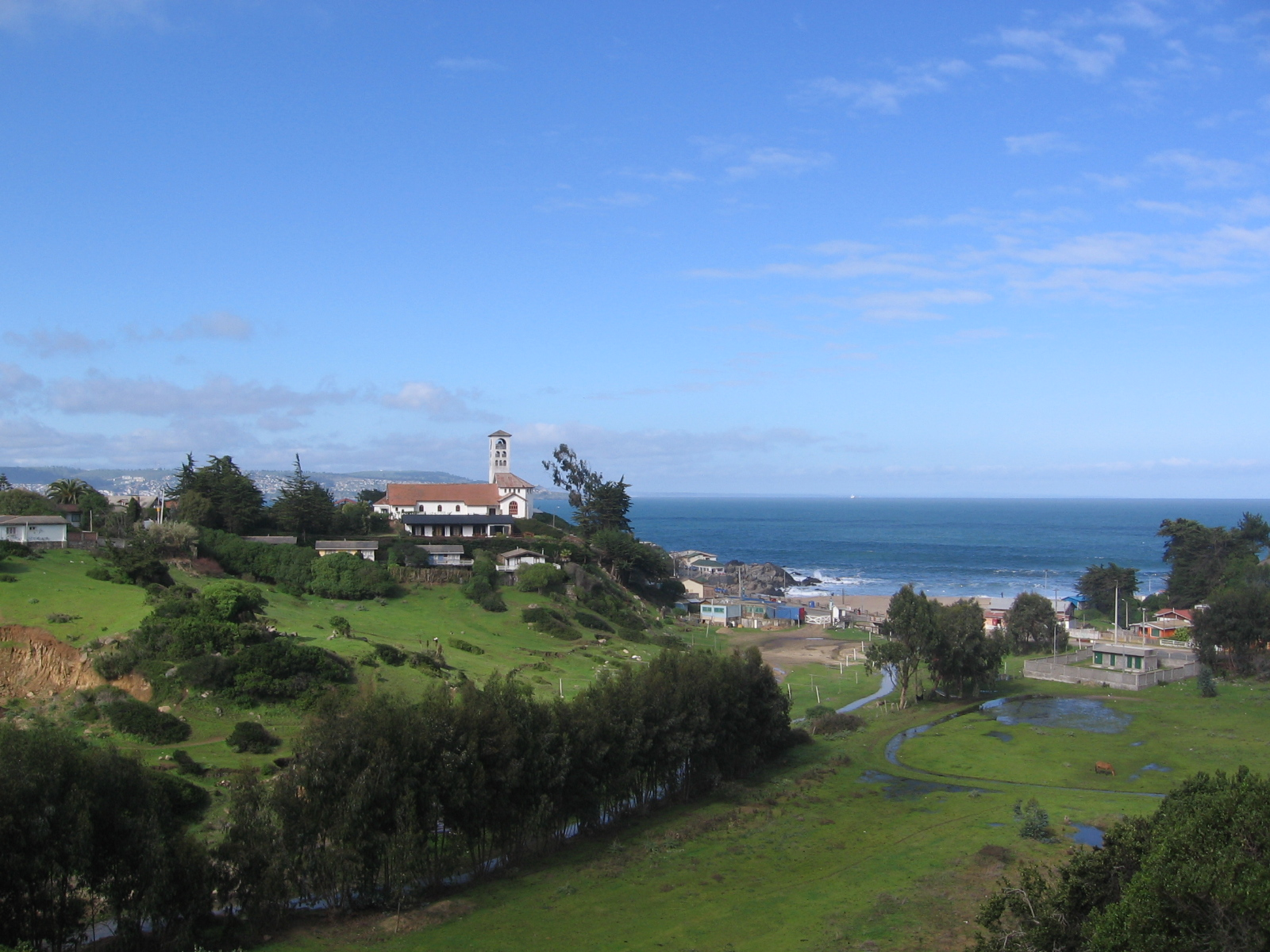 Las Cruces (V Región de Valparaíso, Chile), Playa Chica (Small Beach) view from the western hills